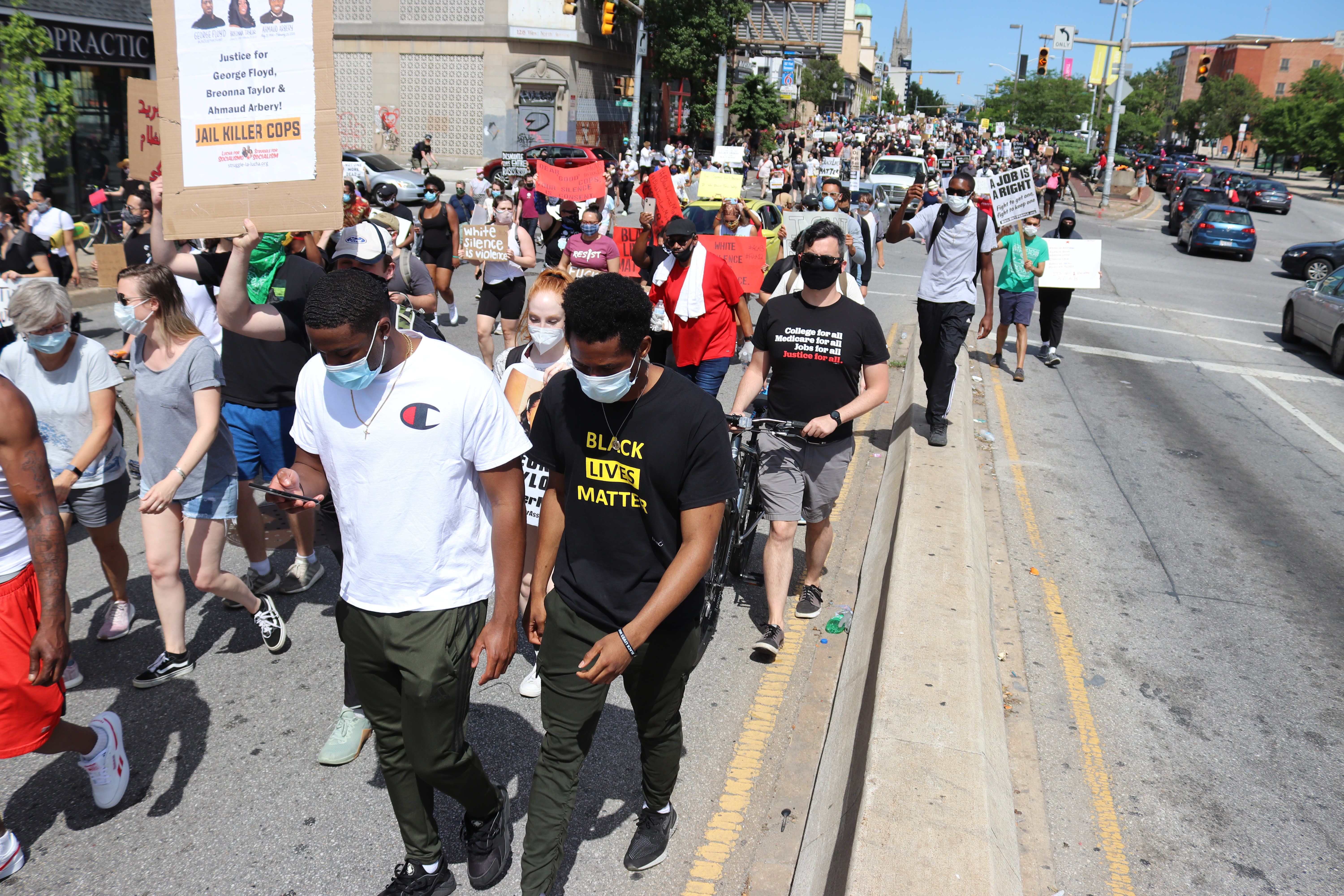 National Day of Protests Against Racism & Political Repression Caravan / March along West North Avenue at North Howard Street in Baltimore, Maryland on Saturday afternoon, 30 May 2020 by Elvert Barnes Photography Follow People's Power Assembly Baltimore event page at Elvert Barnes Saturday, 30 May 2020 NDOP docu-project at Elvert Barnes Corona Virus COVID-19 Pandemic Project at Elvert Barnes BMORE 2020 docu-project at